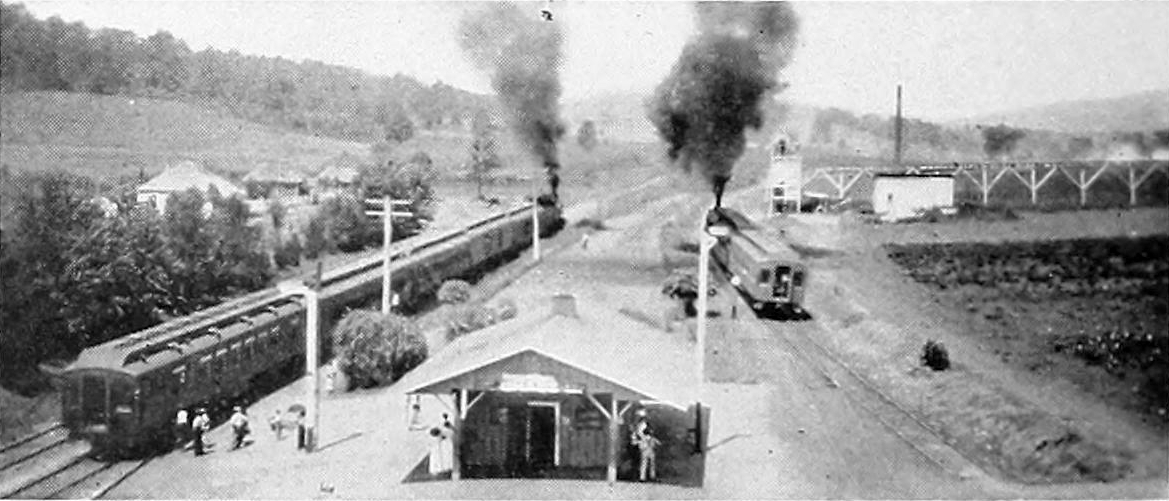 Chase Nursery railroad station, Chase, Alabama.